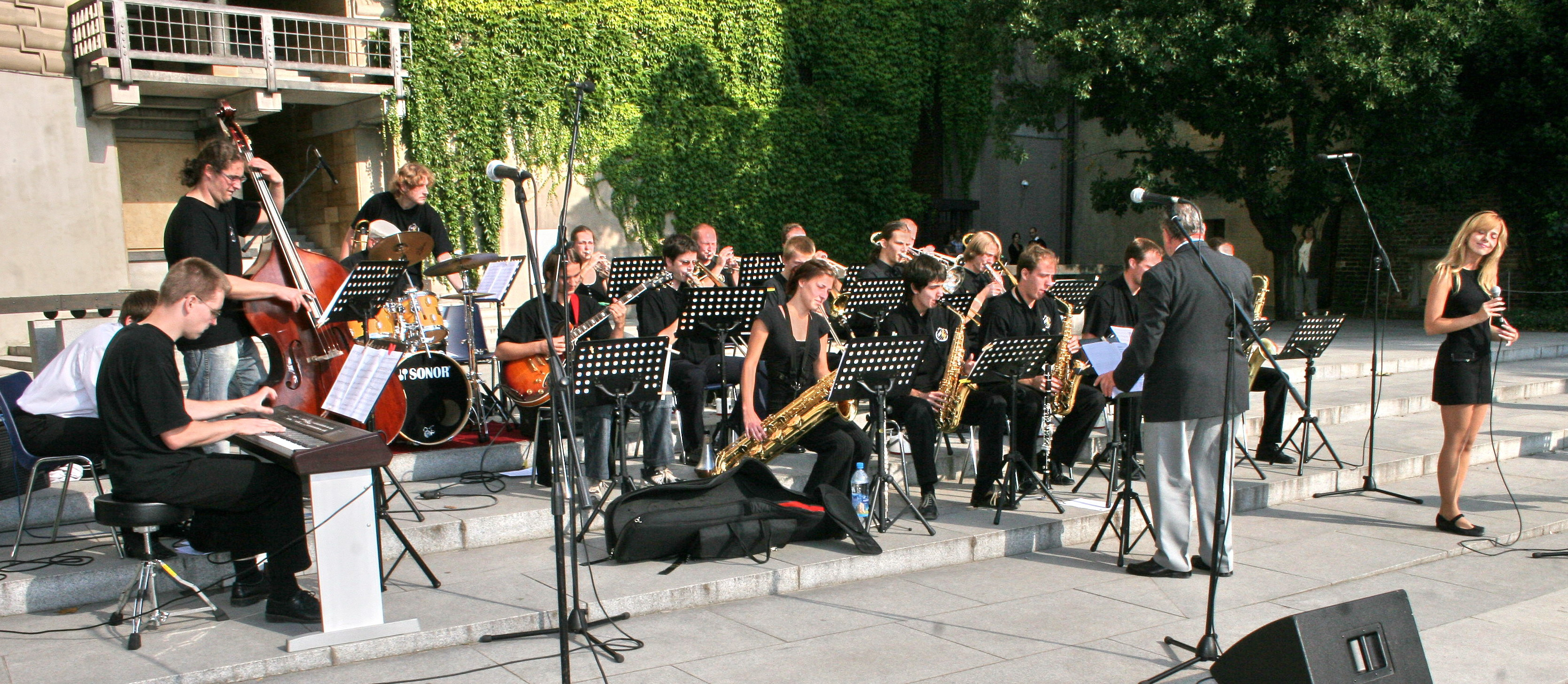 Jazz na Hrade, music festival